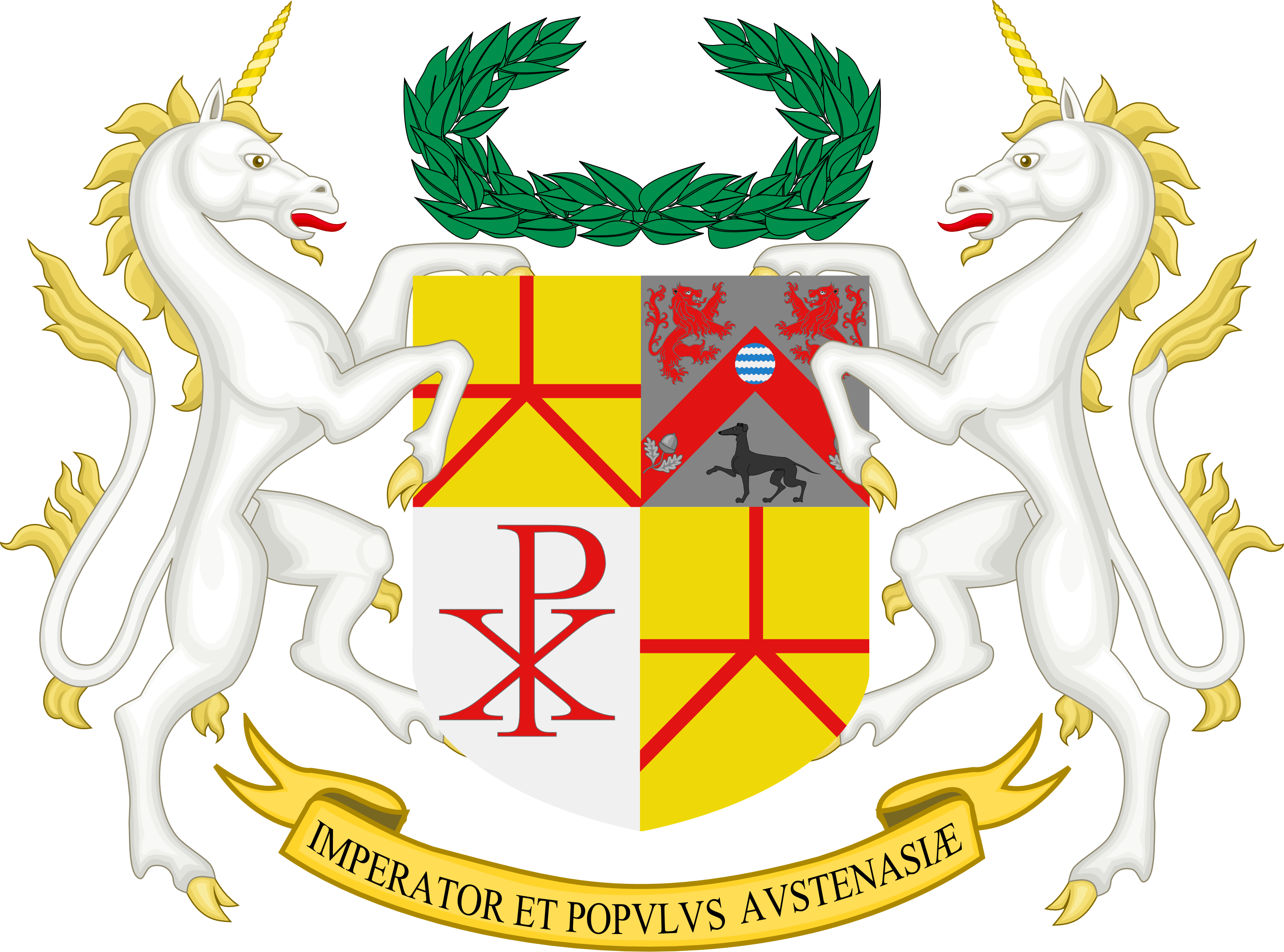 The coat of arms of the Empire of Austenasia, a British micronation.